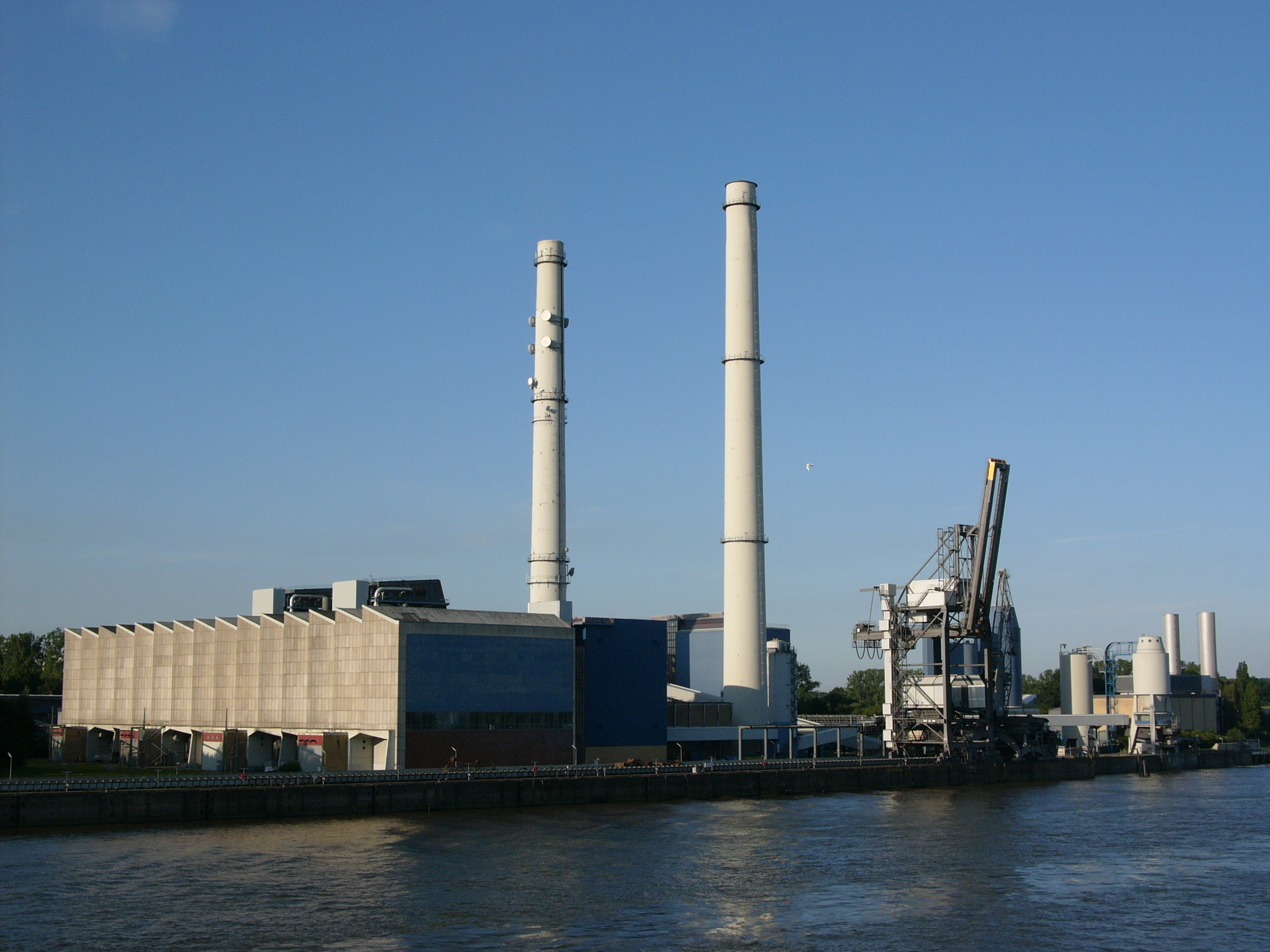 Power plant at the river Elbe, Wedel, Hamburg